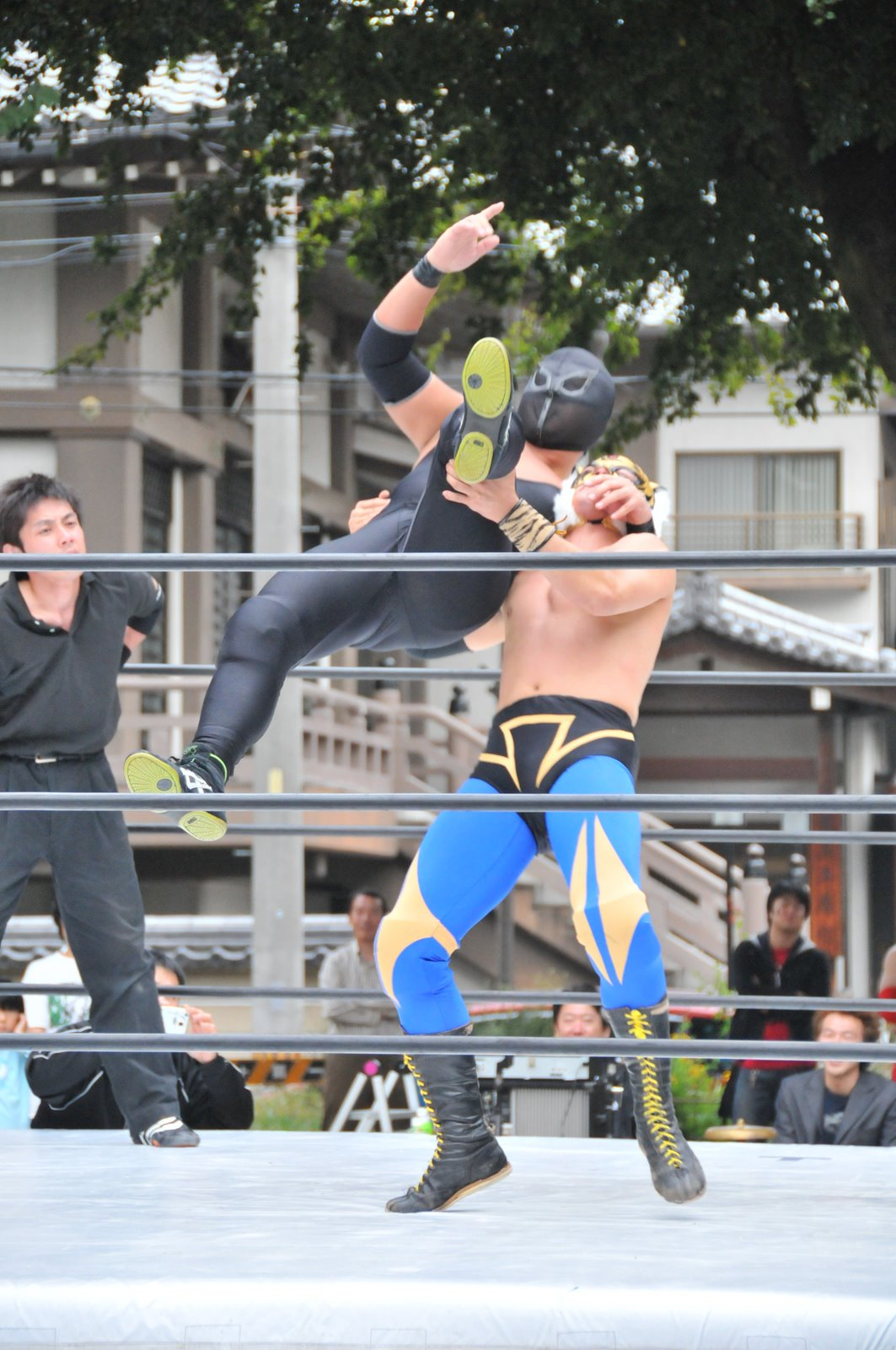 Back drop performed by amateur pro-wrestlers